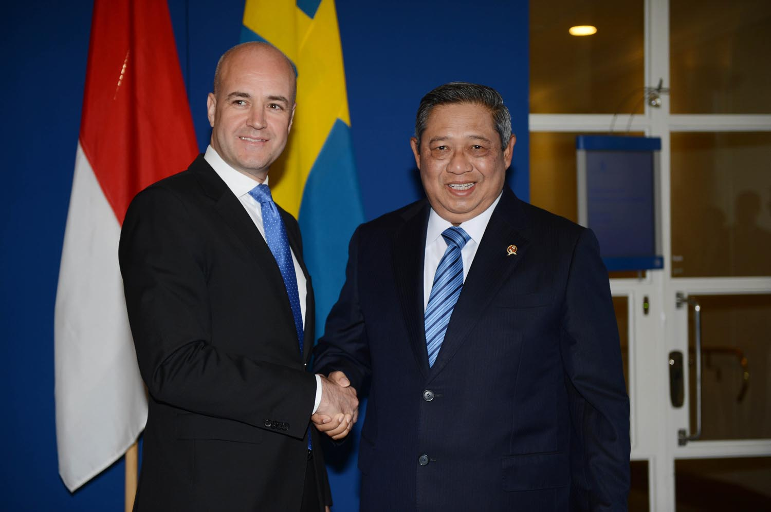 Presiden SBY melakukan pertemuan bilateral dengan PM Swedia Fredrik Reinfeldt di Stockholm, 28 Mei 2013.